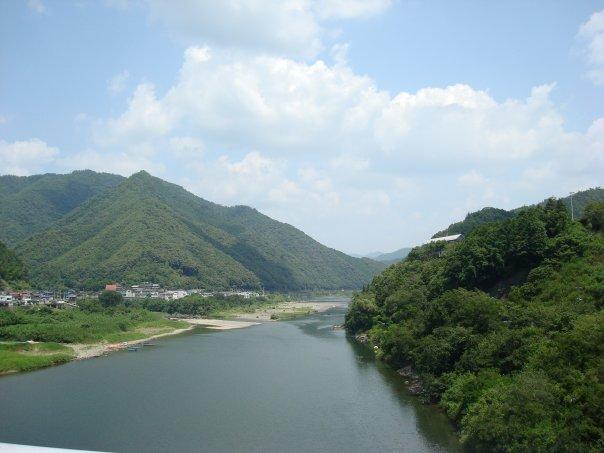 Taken in Nishitosa village, Kochi prefecture, Japan